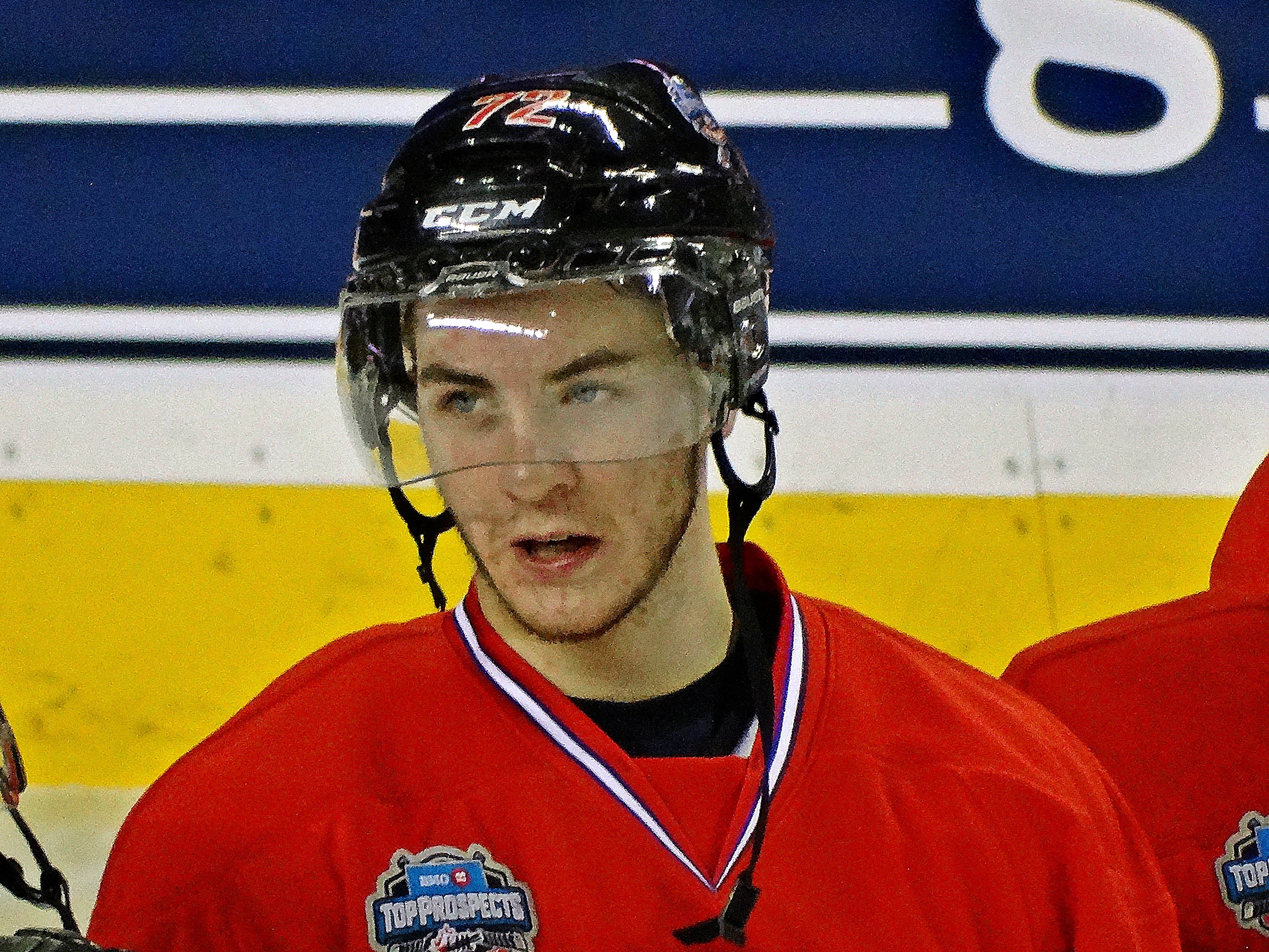 Ryan MacInnis, American ice hockey player at the CHL / NHL Top Prospects game